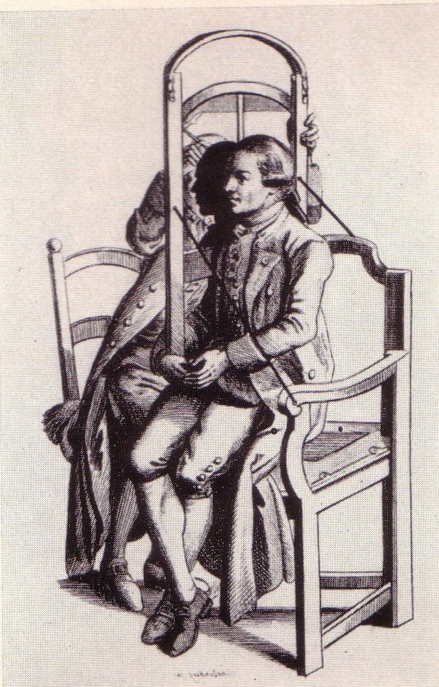 Lithography of a chair for drawing silhouettes, invented by Prof. Julius Höpfner, Gießen